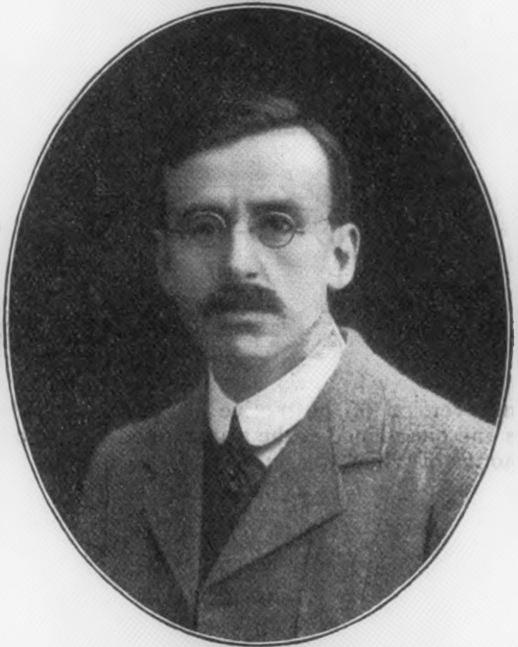 Herbert Frederick Ellingford (1876–1966) was the city organist for Liverpool, appointed in 1913.